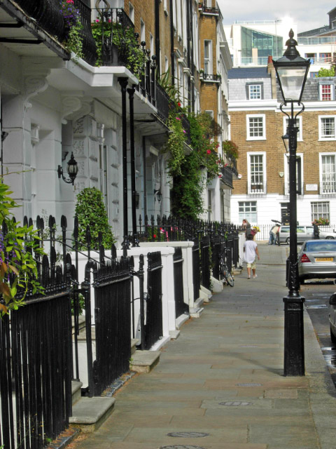 Montpelier Square, Knightsbridge Showing the houses lining the northern side of the square.